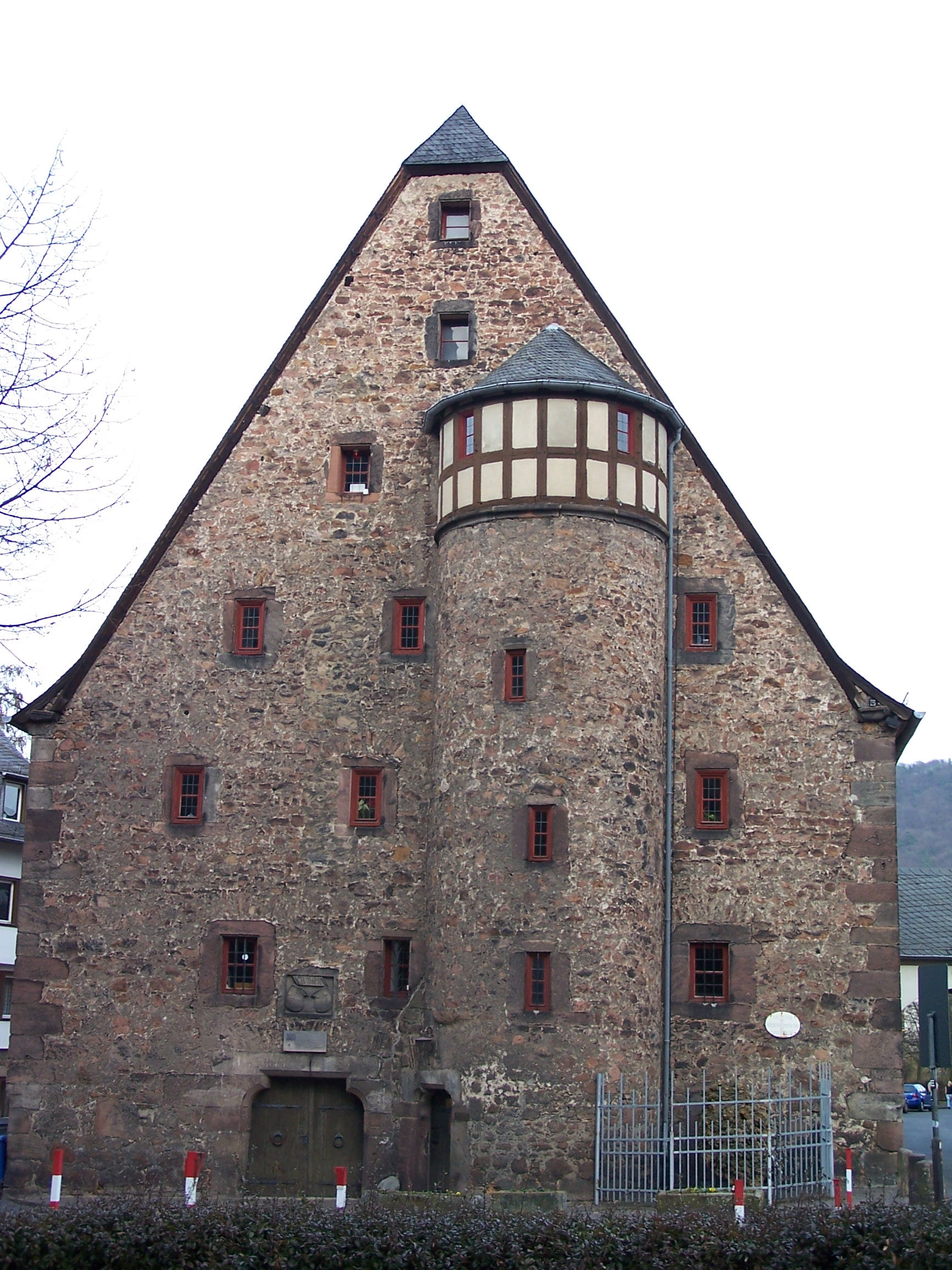 Museum of Mineralogy in Marburg, Hesse, Germany